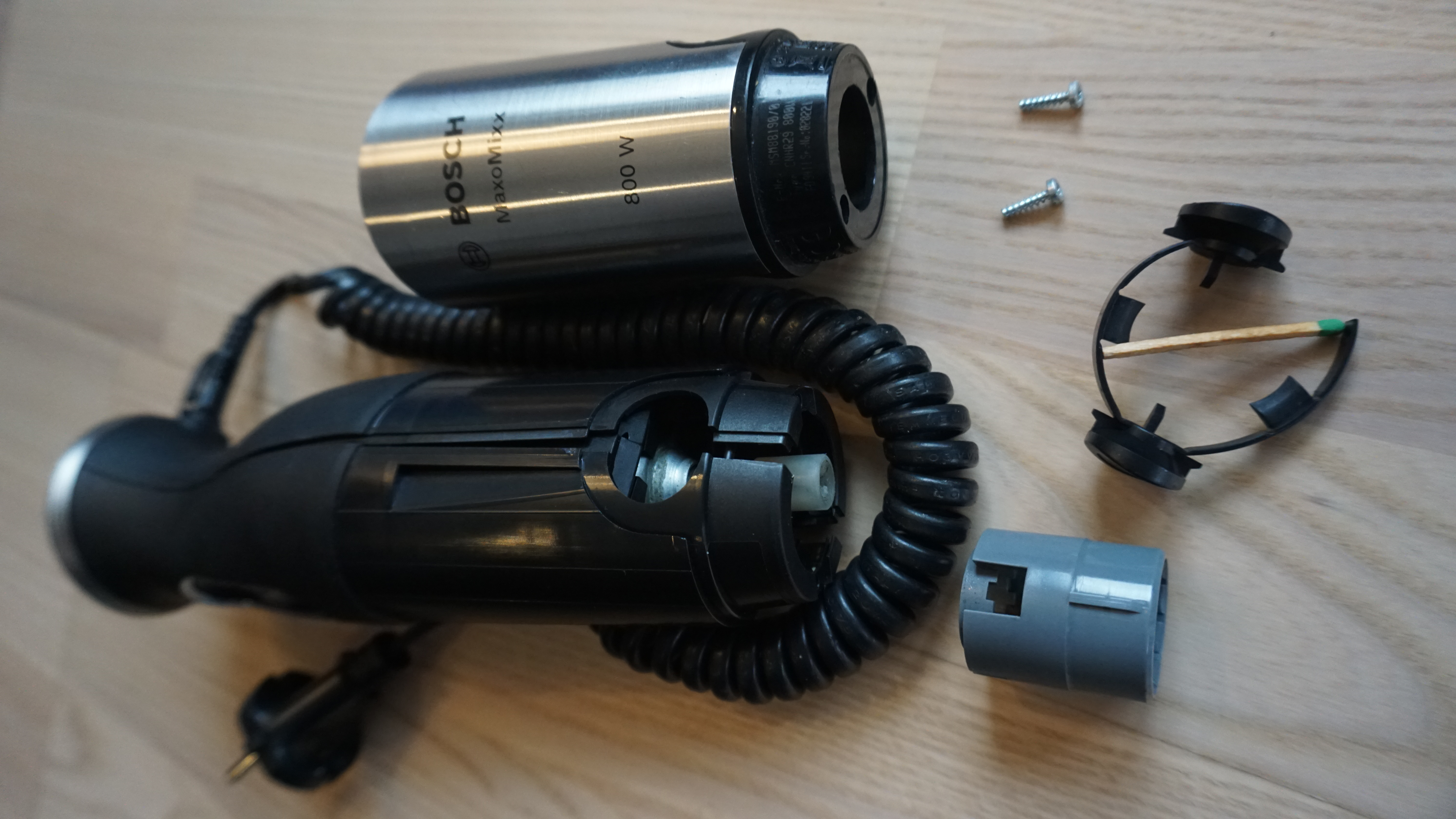 Bosch installs in the MaxoMixx hand blenders the plastic latch (indicated by the matchhead) that easily breaks as a result of material fatigue. After breaking Bosch service refuses to sell this element as a spare part and urges users to buy a new complete device, which unreasonably increases the user's cost.